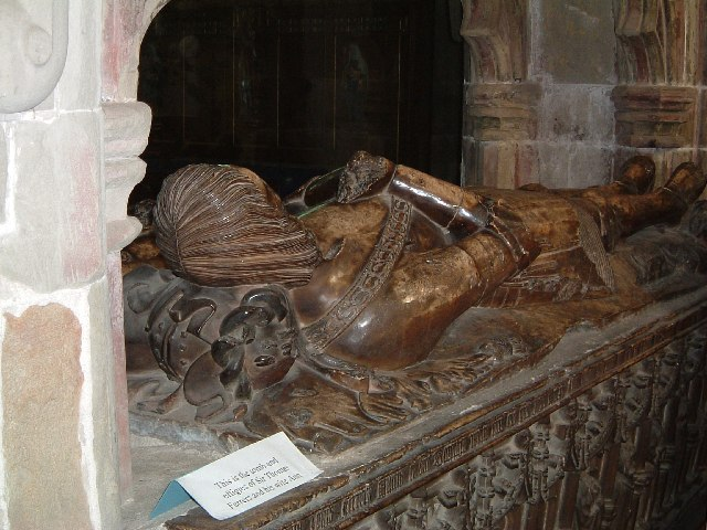 Tomb of Sir Thomas Ferrers and his wife Ann. A supplementary image showing one of the interesting monuments within Tamworth's St. Editha's Church.